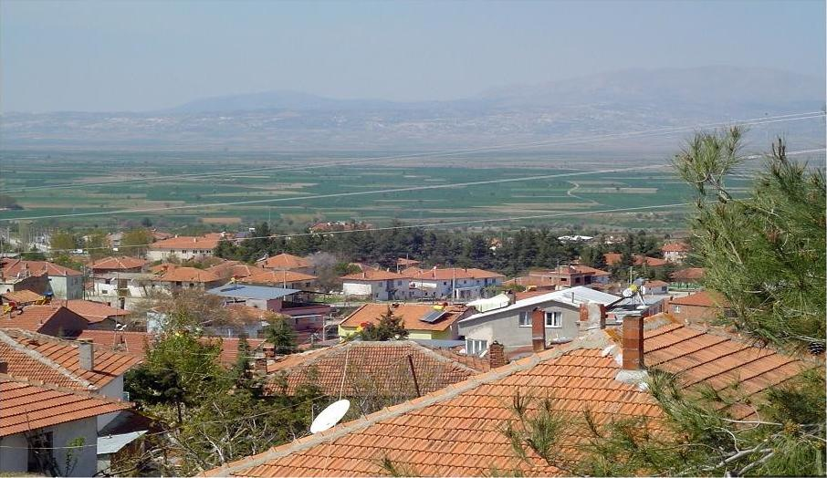 General view of Baklan town and Baklan Plain, Denizli Province, Turkey